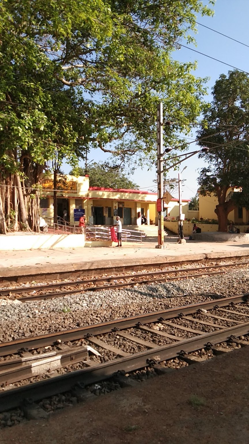 This is the Picture of Gangadharpur railway station